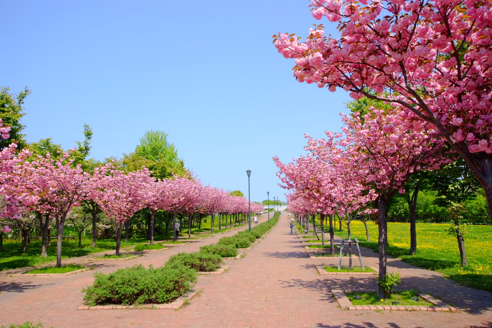 星観緑地 （Hoshimi Green space）